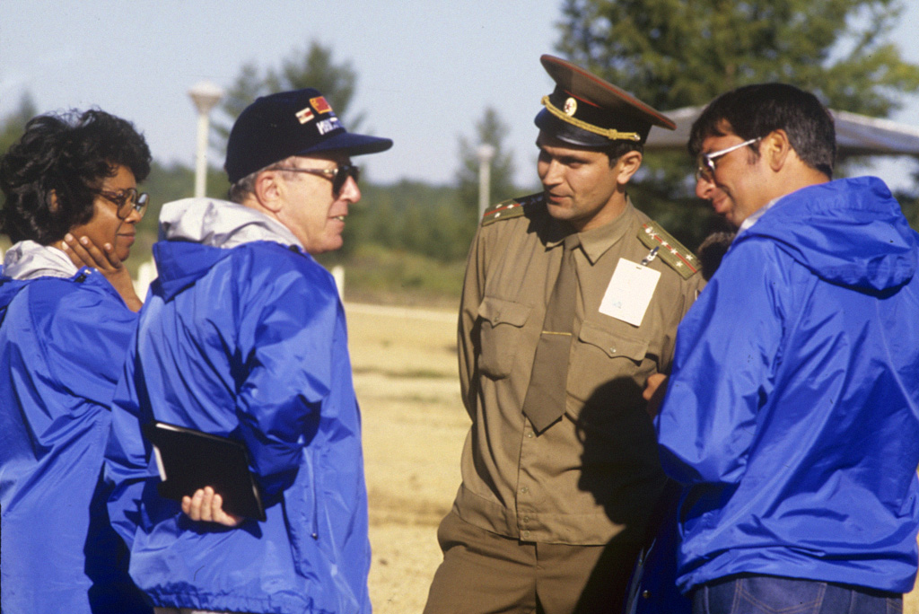 “US military inspectors, Soviet Army captain”. U.S. military inspectors and a Soviet Army captain seen during Soviet RSD-10 missiles demolition.